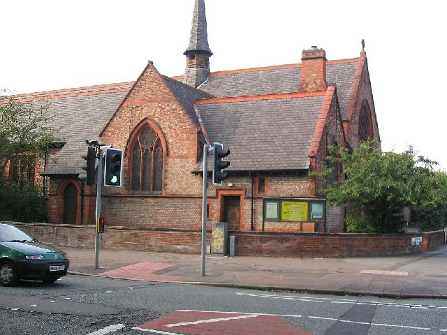 St Werburghs. This is St Werburgh's Church on the corner of Wilbraham Road and St Werburgh's Road, Chorlton, M21. The picture was taken from SJ823940 looking north.